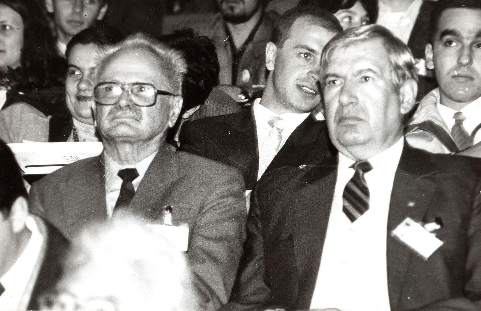 Sándor Balázs (April 4, 1928) a Hungarian philosopher and university professor in Romania (left)Ferenc Balogh (1941–2002) is a Hungarian architect of Romania, son of Edgár Balogh (right)